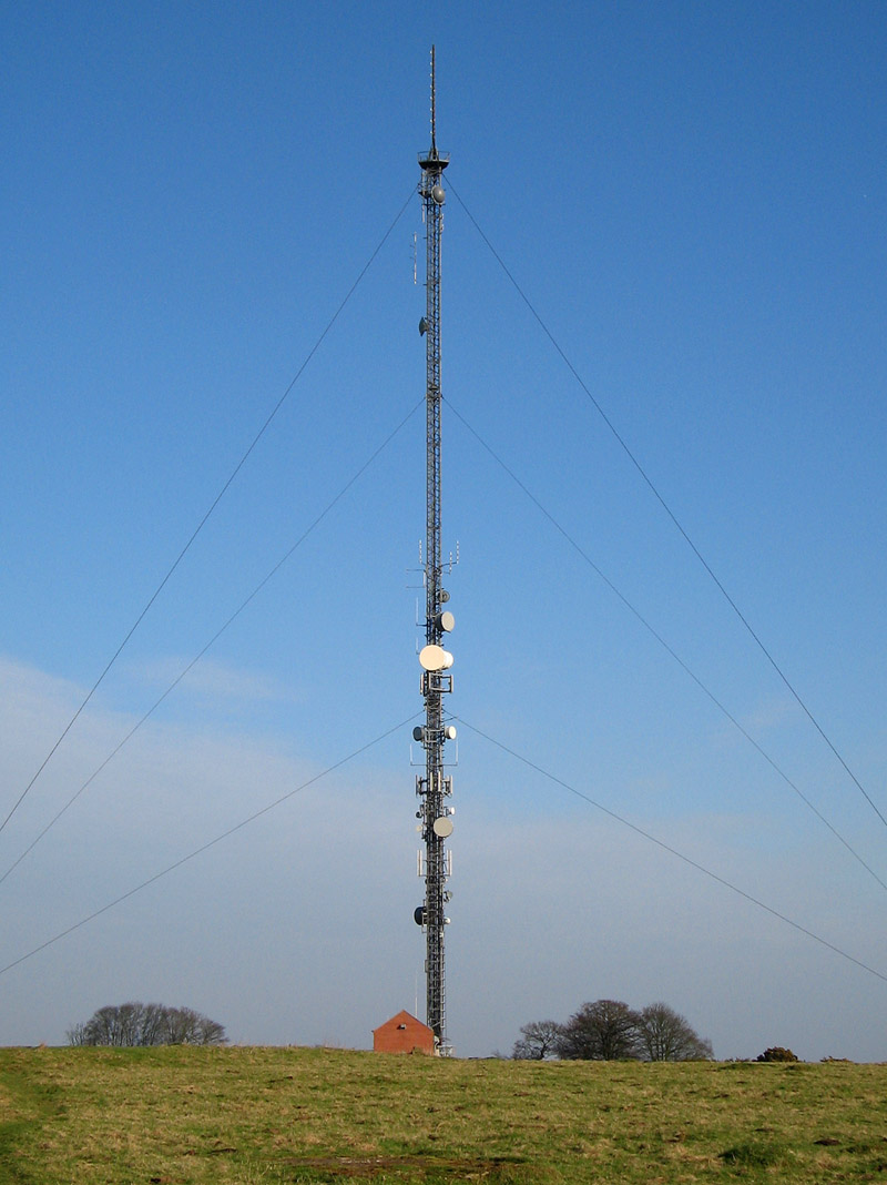 The last remaining radio mast on Borough Hill near Daventry. Now used as a radio beacon for aircraft. Photo by G-Man April 2005